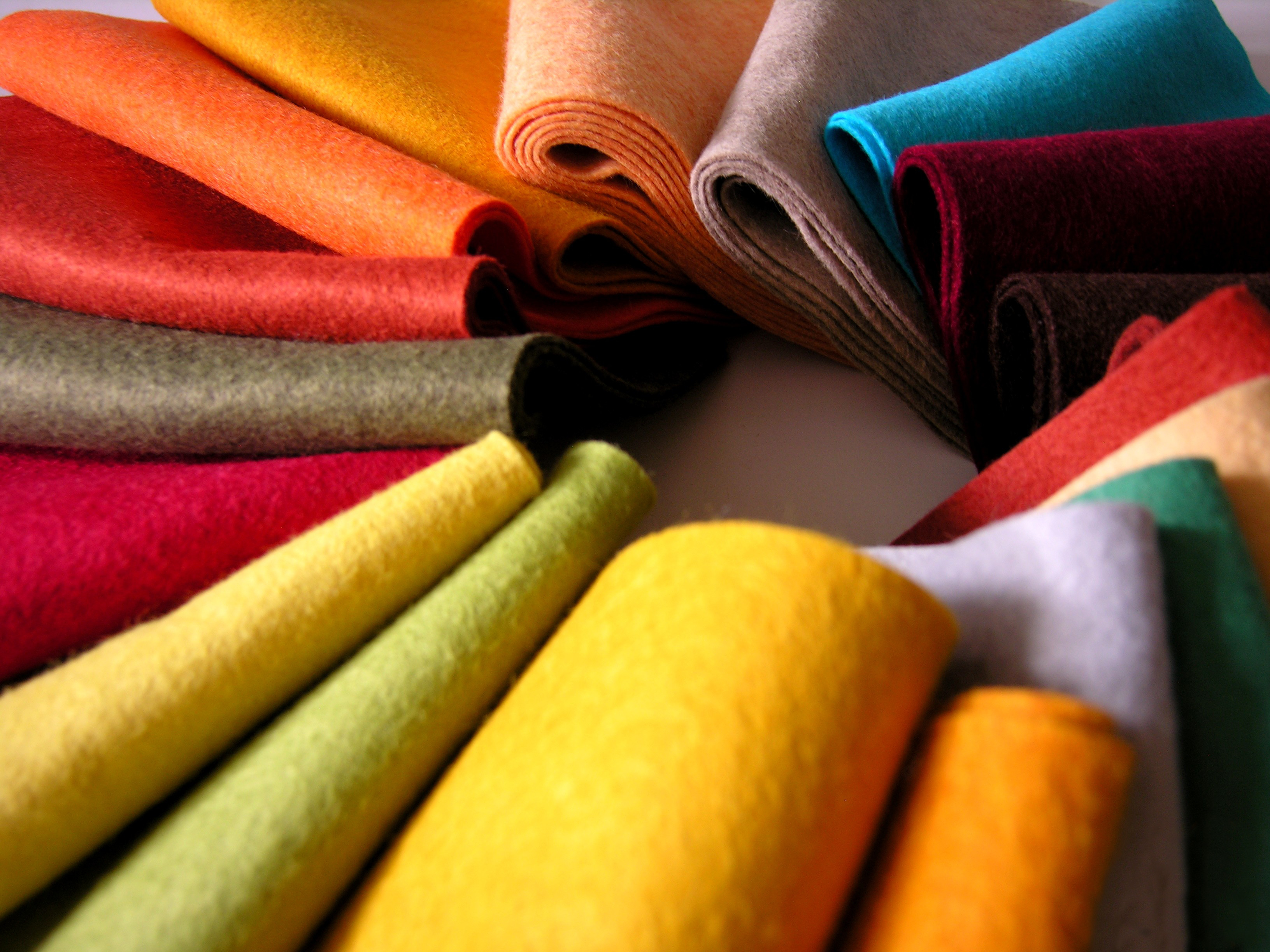 Wool Blend felt sheets in a variety of colors.